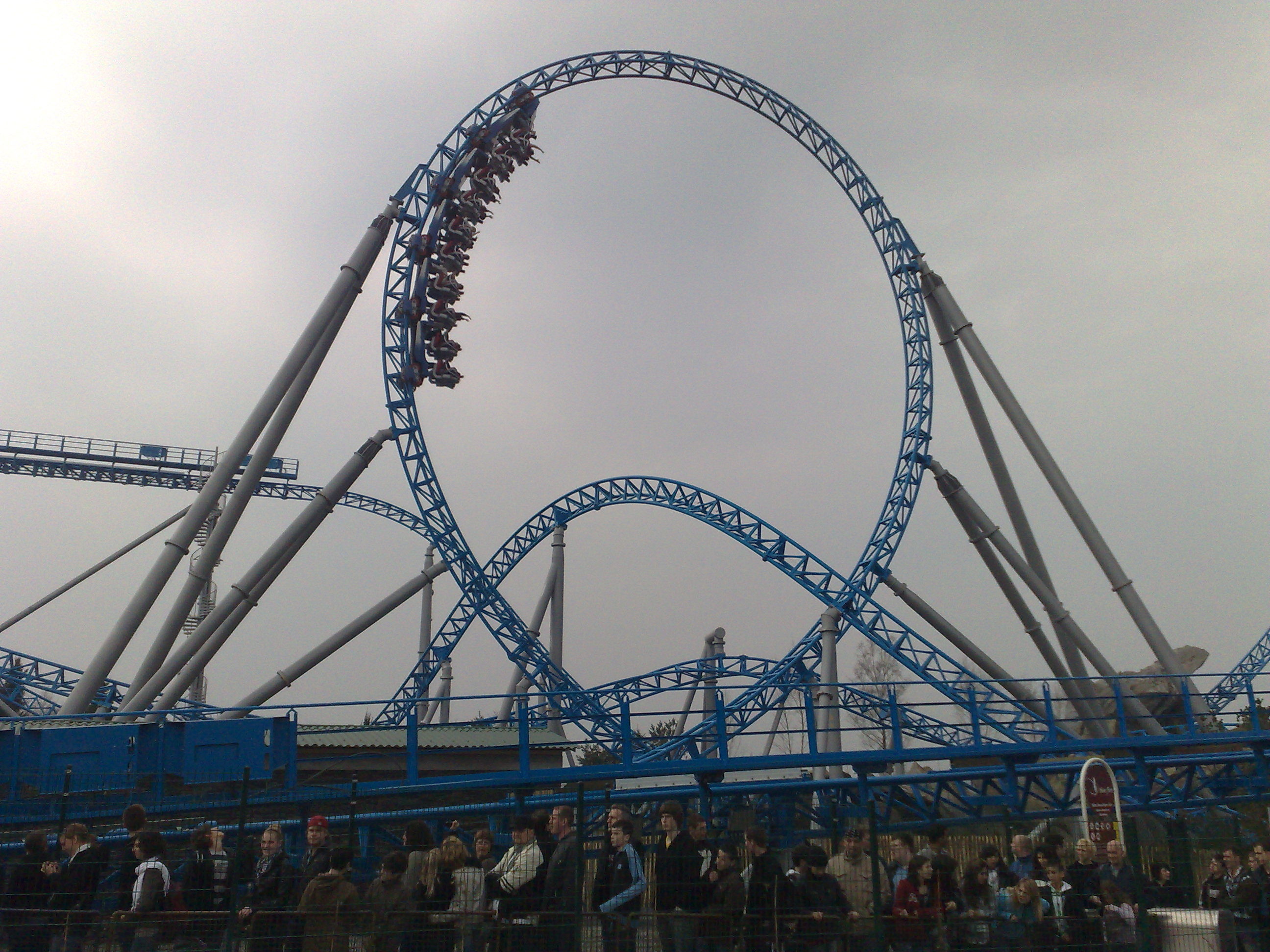 Roller coaster "Blue Fire" at Europa Park